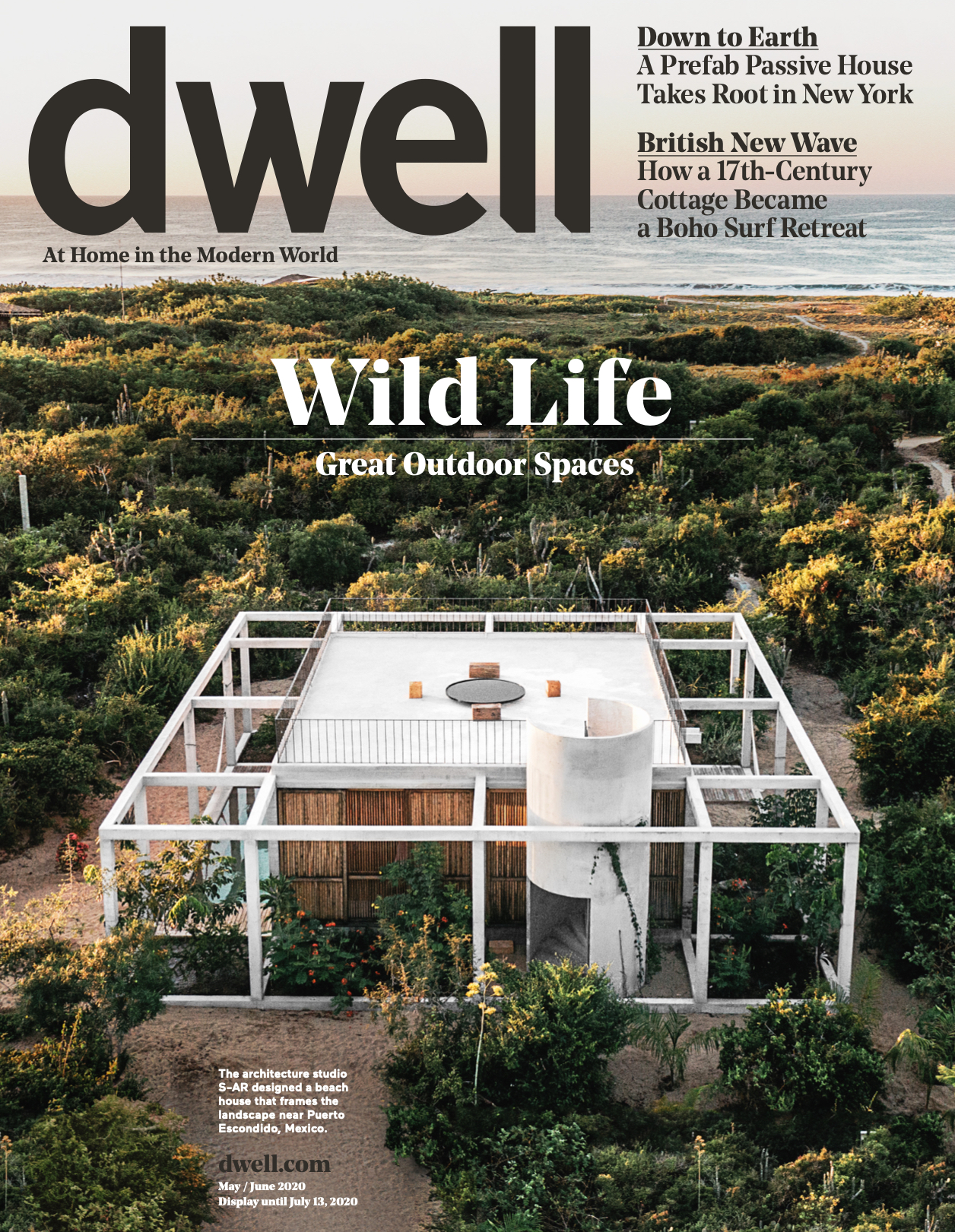 Cover image of the May/June 2020 issue of Dwell magazine